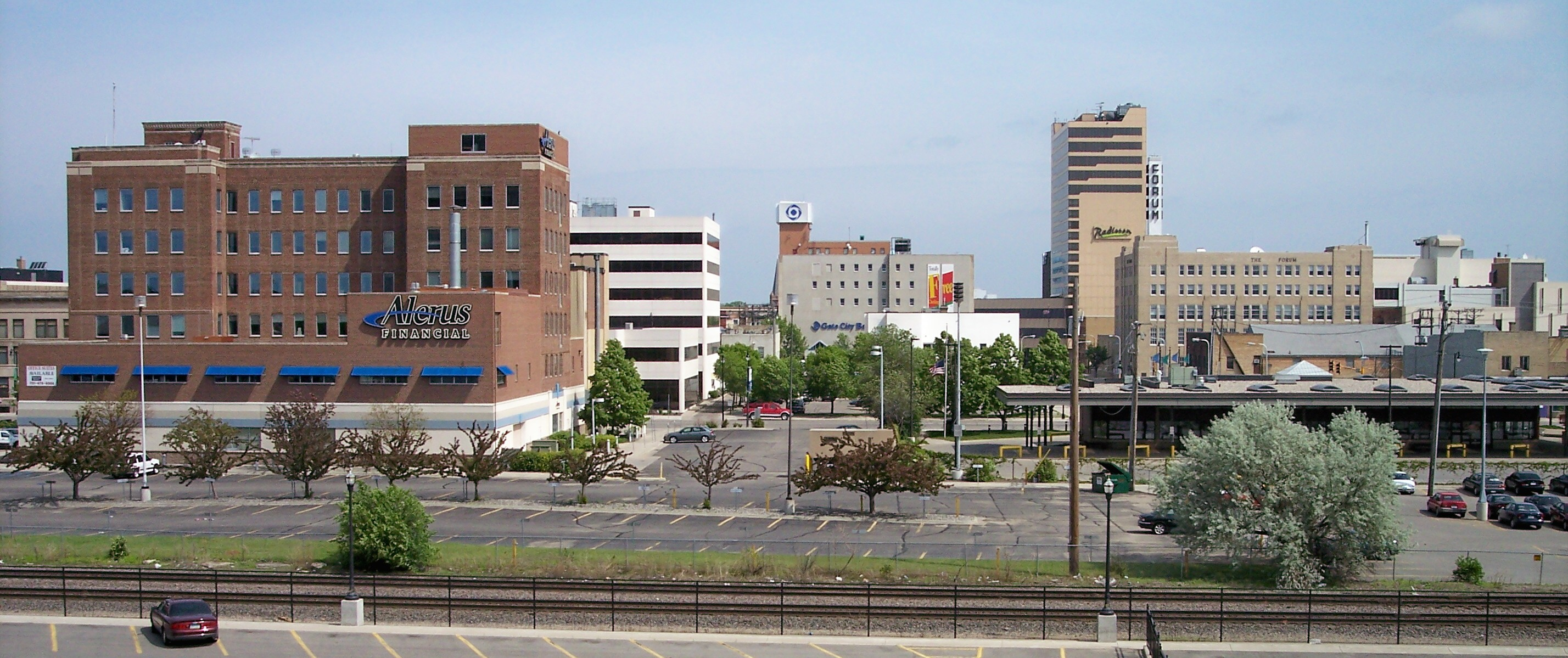 A portion of downtown Fargo, North Dakota as viewed from atop a parking garage on Main Avenue